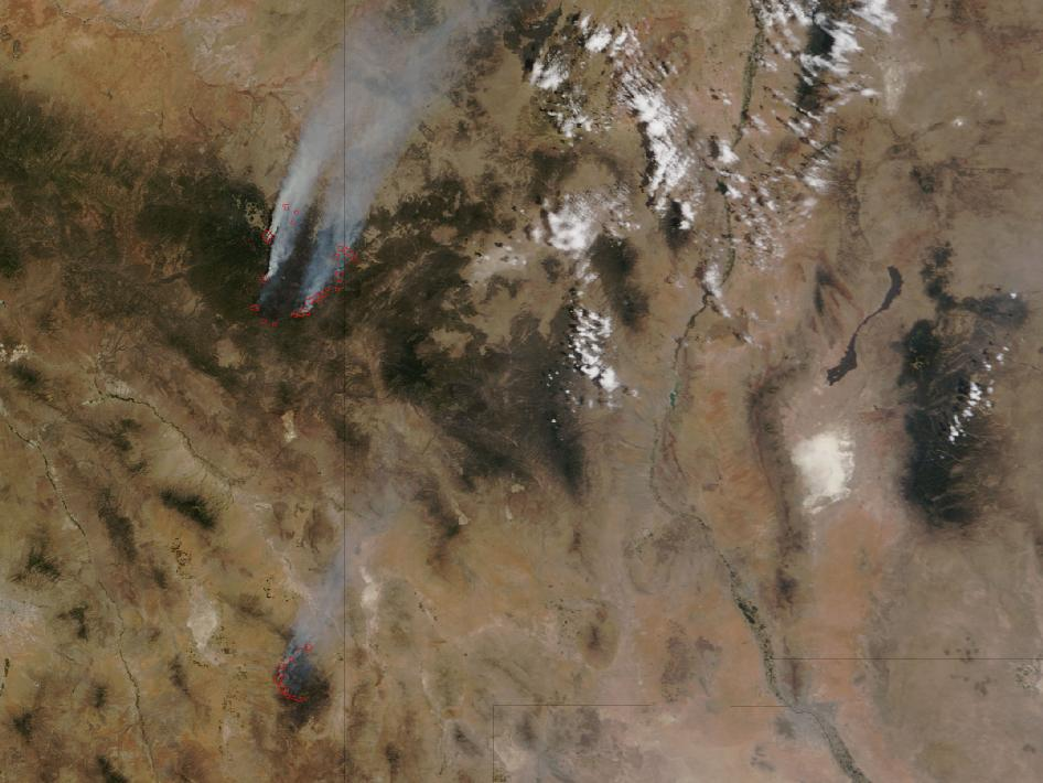 Wallow North and Horseshoe Two Fires, Arizona. Wallow Fire and Horseshoe Two Fires (lower left), Arizona. NASA satellite image, acquired midday, June 12, 2011. Vertical line is AZ-NM state line. Horizontal line is USA-Mexico boundary. NM "bootheel" (just E of H2 fire) is about 50 miles wide.